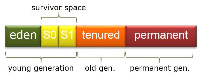 garbage collector generations in java